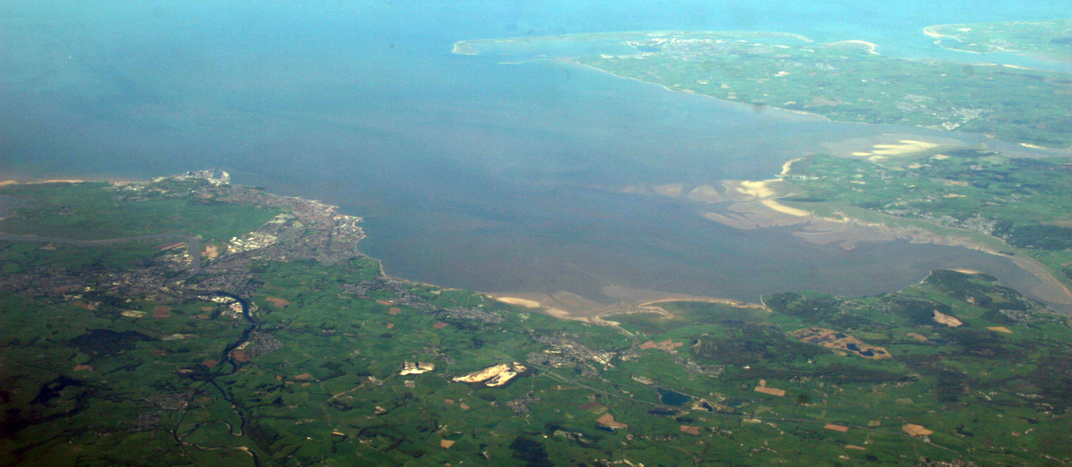 A veiw over Morecambe Bay showing Barrow-in-furness, Morecambe and Lancaster